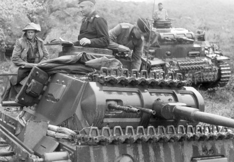 A prisoner from New Zealand is taken past two Panzer Mk IIIs of the 2nd Panzer Division near Pandelejmon, Greece, April 16, 1941[1]